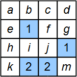 Tentatizu example on 4x4 board with variables marked.